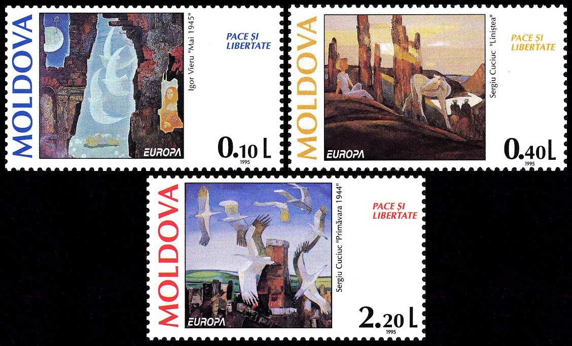 Postage stamps of Moldova, 1995. Issue on the program EUROPA.